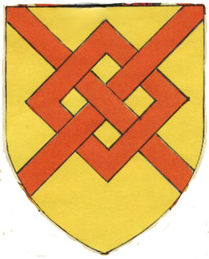 "Or fret de gueules" Bertram de Verdun coat of arms